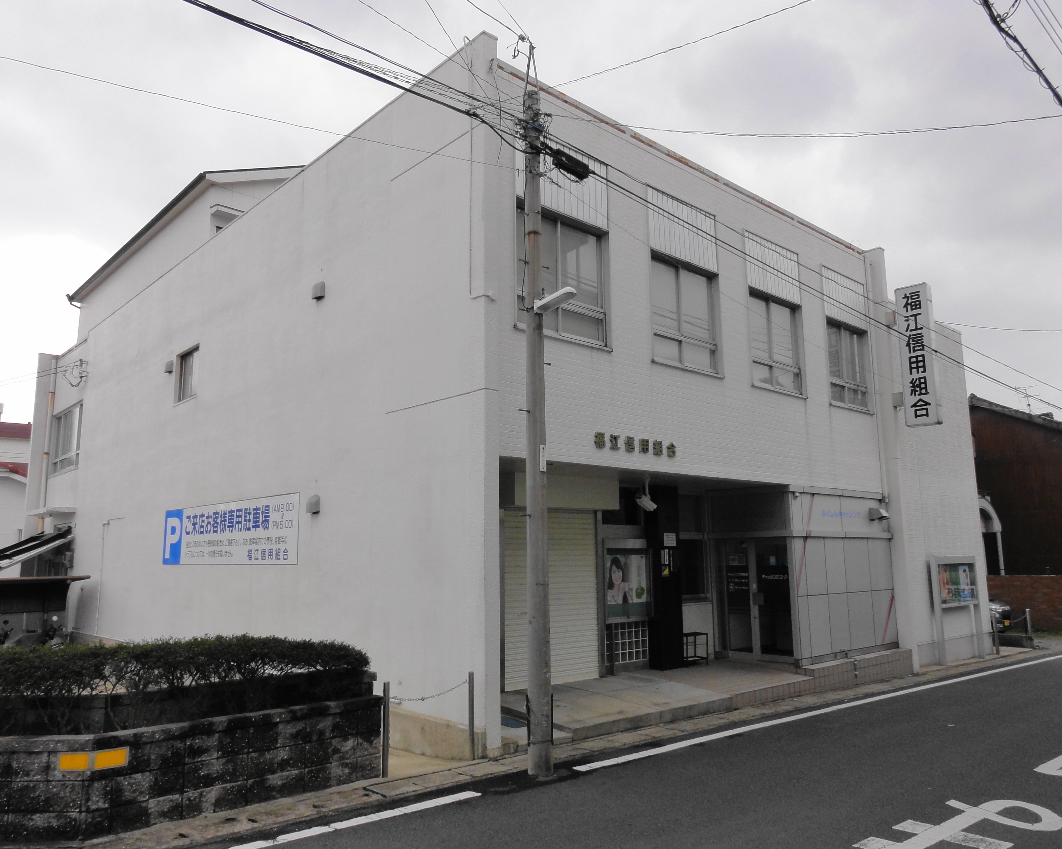 Fukue Credit union(Head office),Nagasaki prefecture,Japan